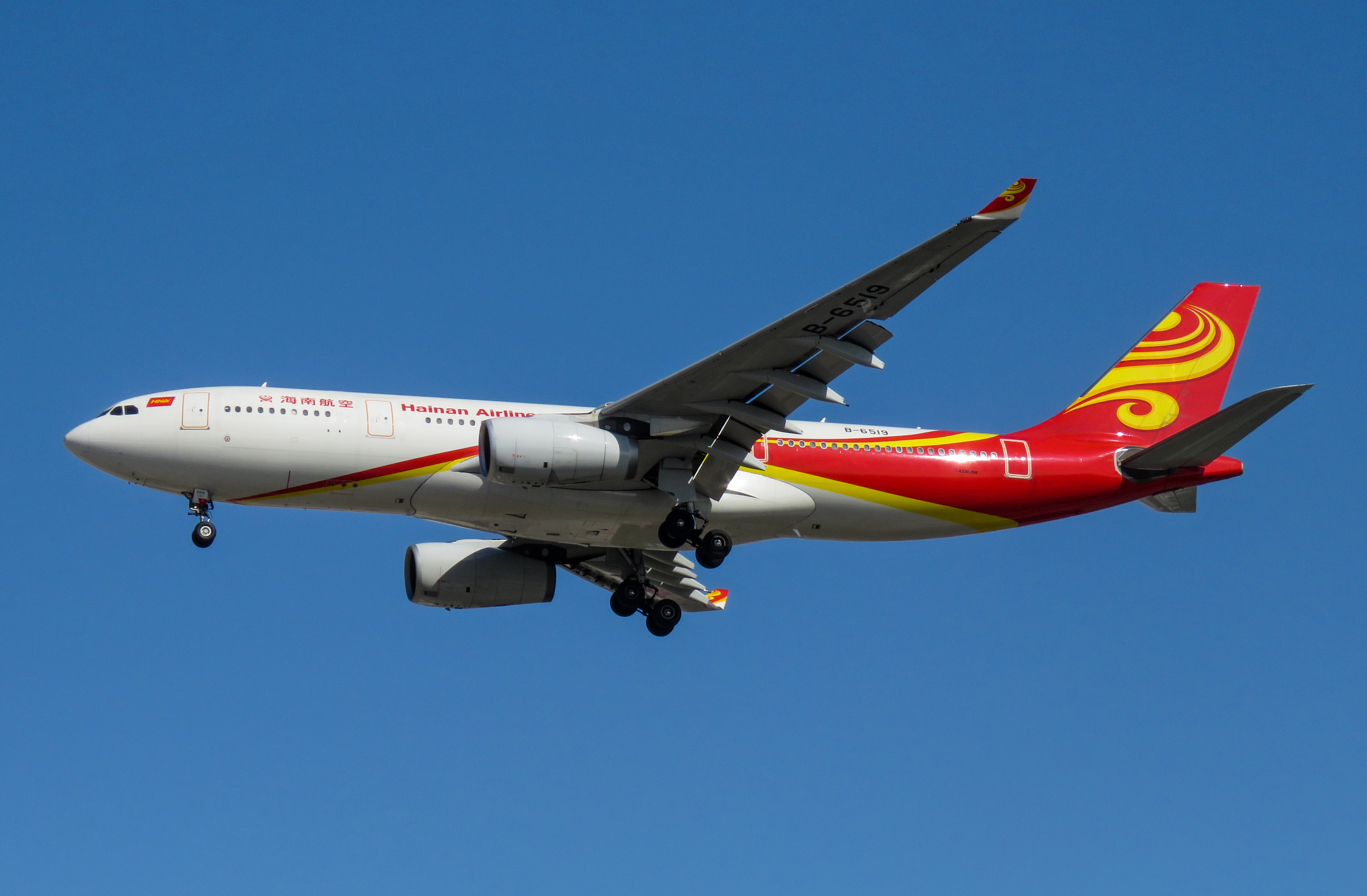 Hainan 7190 from Guiyang.